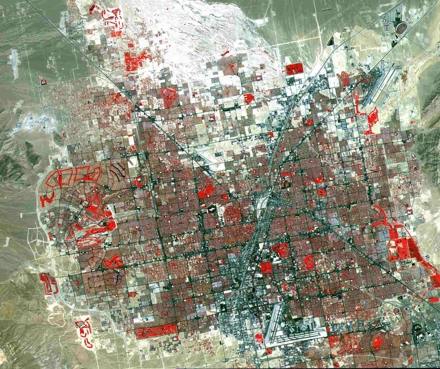 This image of Las Vegas, Nevada, was acquired on August, 2000, and covers an area 42 km (25 miles) wide and 30 km (18 miles) long. The image displays three bands of the reflected visible and infrared wavelength region, with a spatial resolution of 15 meters. McCarran International Airport to the south and Nellis Air Force Base to the northeast are the two major airports visible. Golf courses appear as bright red meanders of grass-covered land. The first settlement in Las Vegas (which is Spanish for “The Meadows”) was recorded back in the early 1850s when The Church of Jesus Christ of Latter-day Saints, headed by Brigham Young, sent a mission of thirty men to construct a fort and teach agriculture to the Indians. Las Vegas became a city in 1905 when the railroad announced this city was to be a major division point. Prior to legalized gambling in 1931, Las Vegas was developing as an agricultural area. Las Vegas’ fame as a resort area became prominent after World War II.